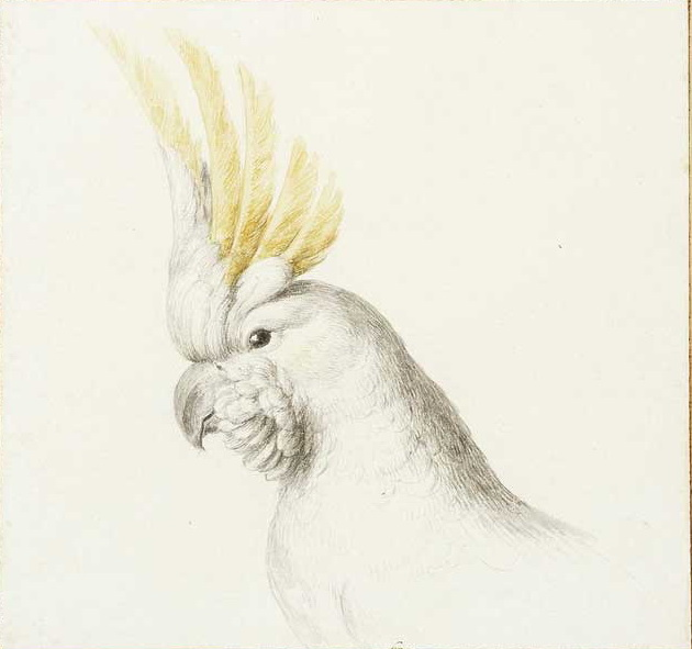 Study of Citron-crested Cockatoo (Cacatua sulphurea citrinocristata)